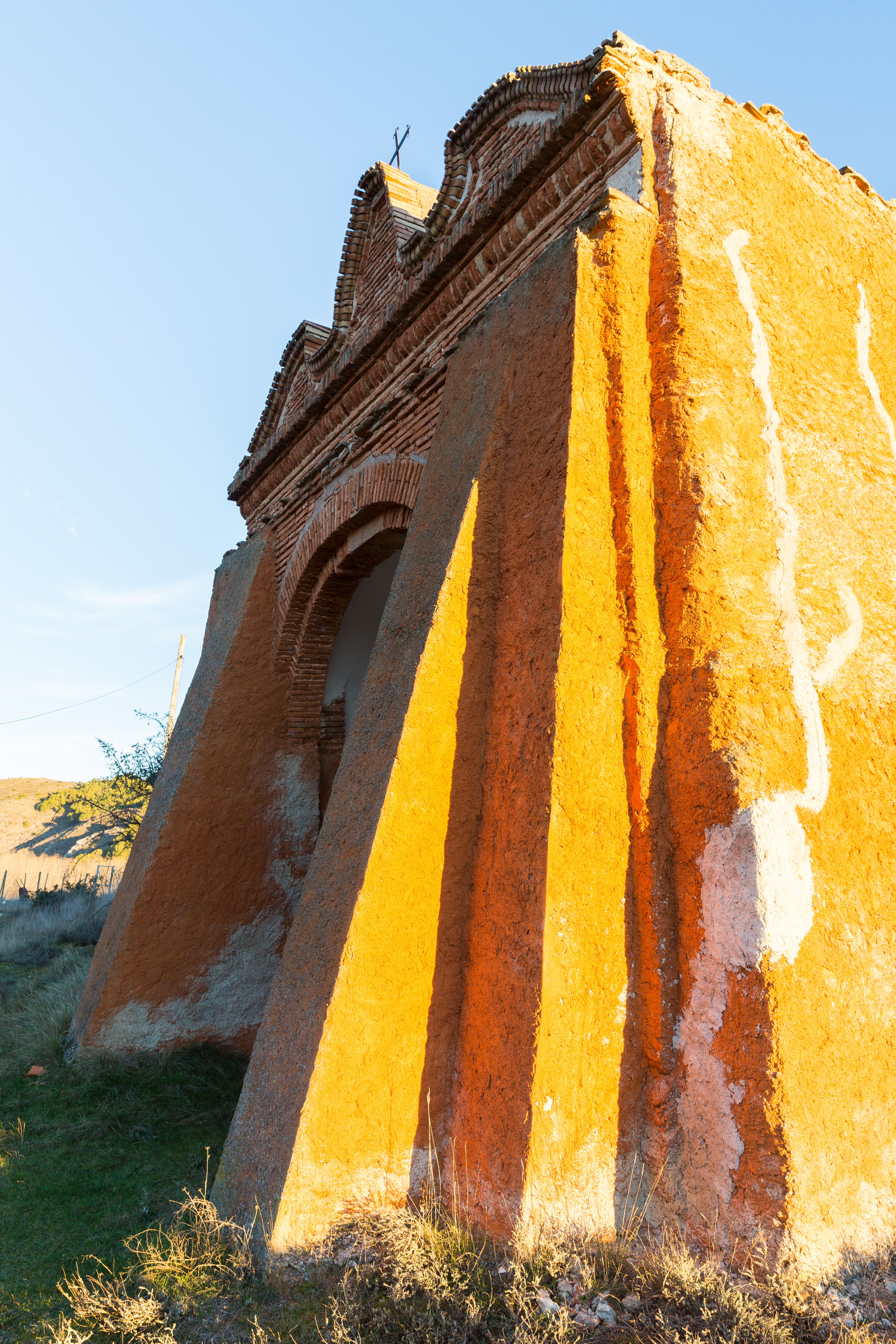 Hermitage of the Holy Sepulchre, Ibdes, Zaragoza, Spain